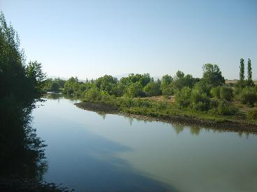 Red River, birthplace of view of Sivas